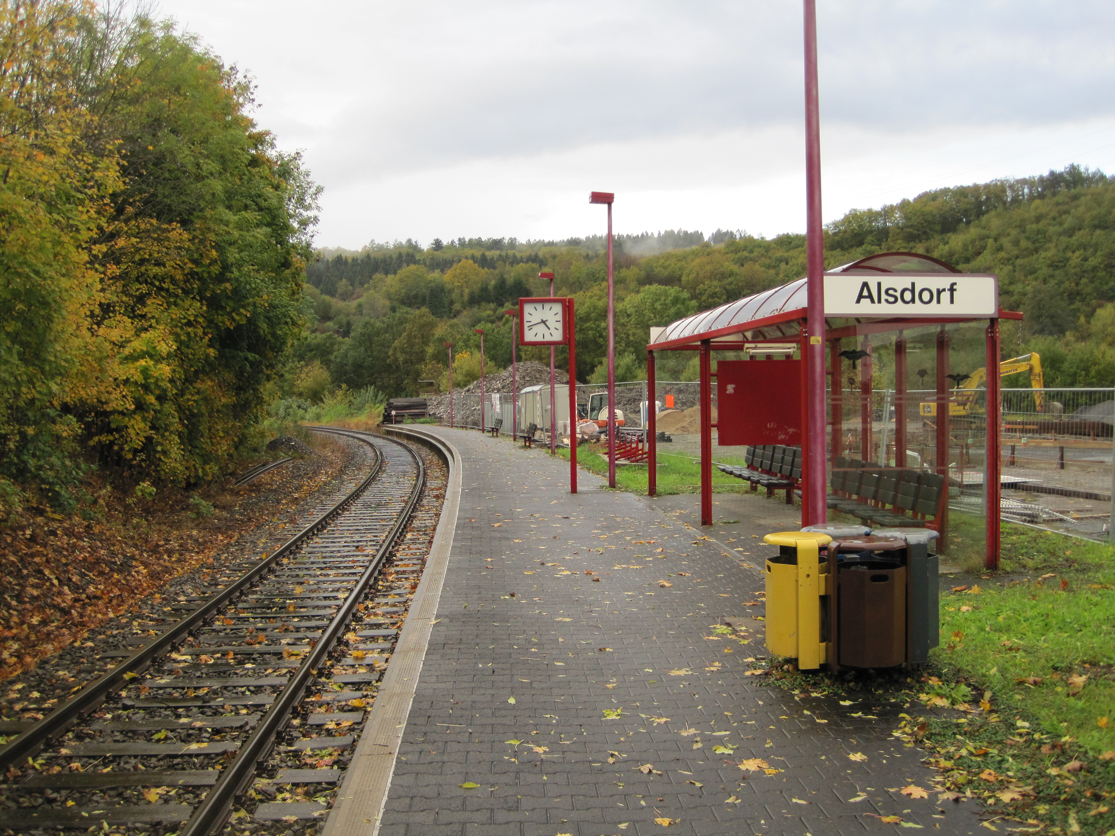 Train station, Alsdorf, Germany check usage